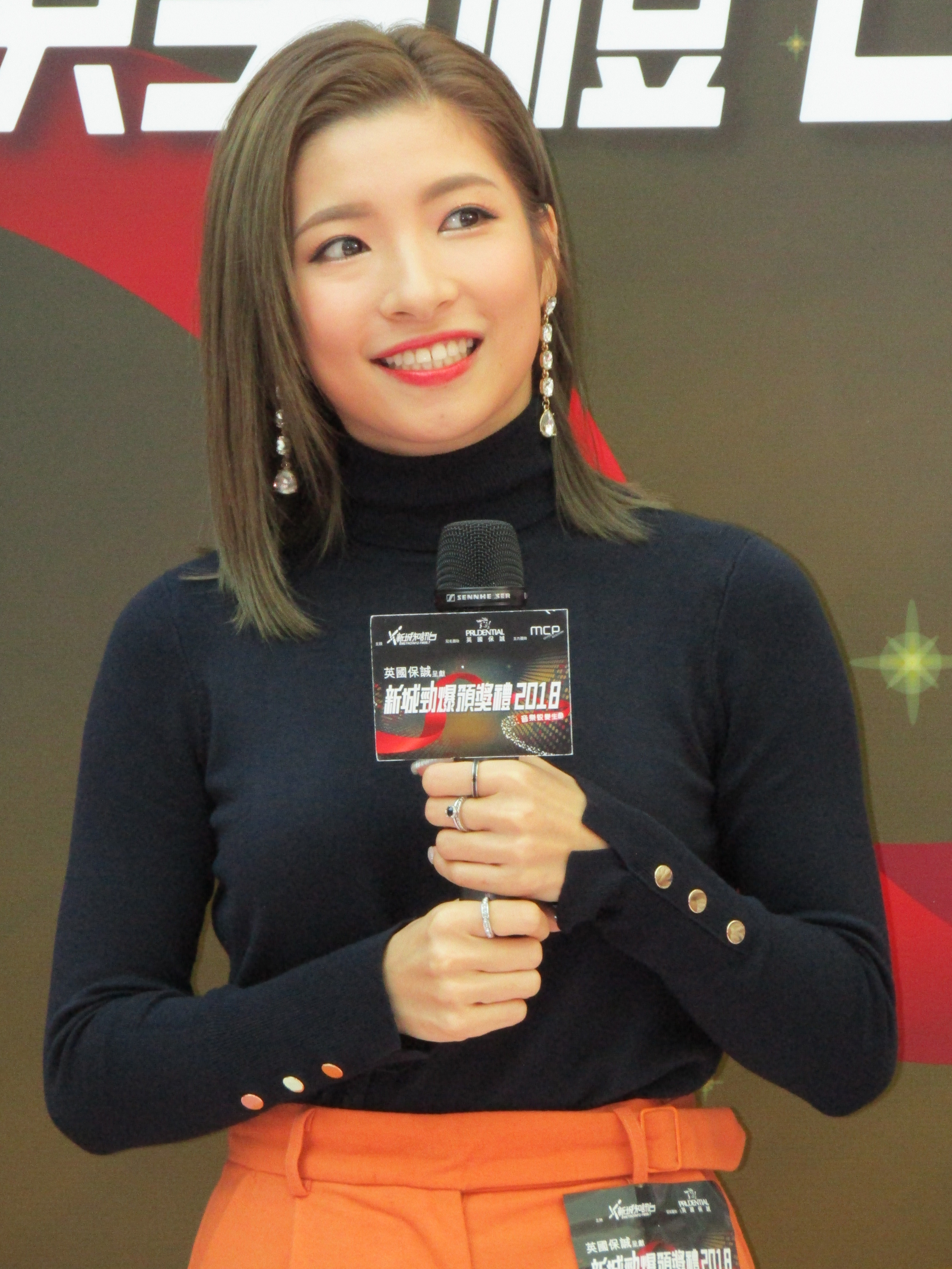 Kayan Chan is in MCP CENTRAL